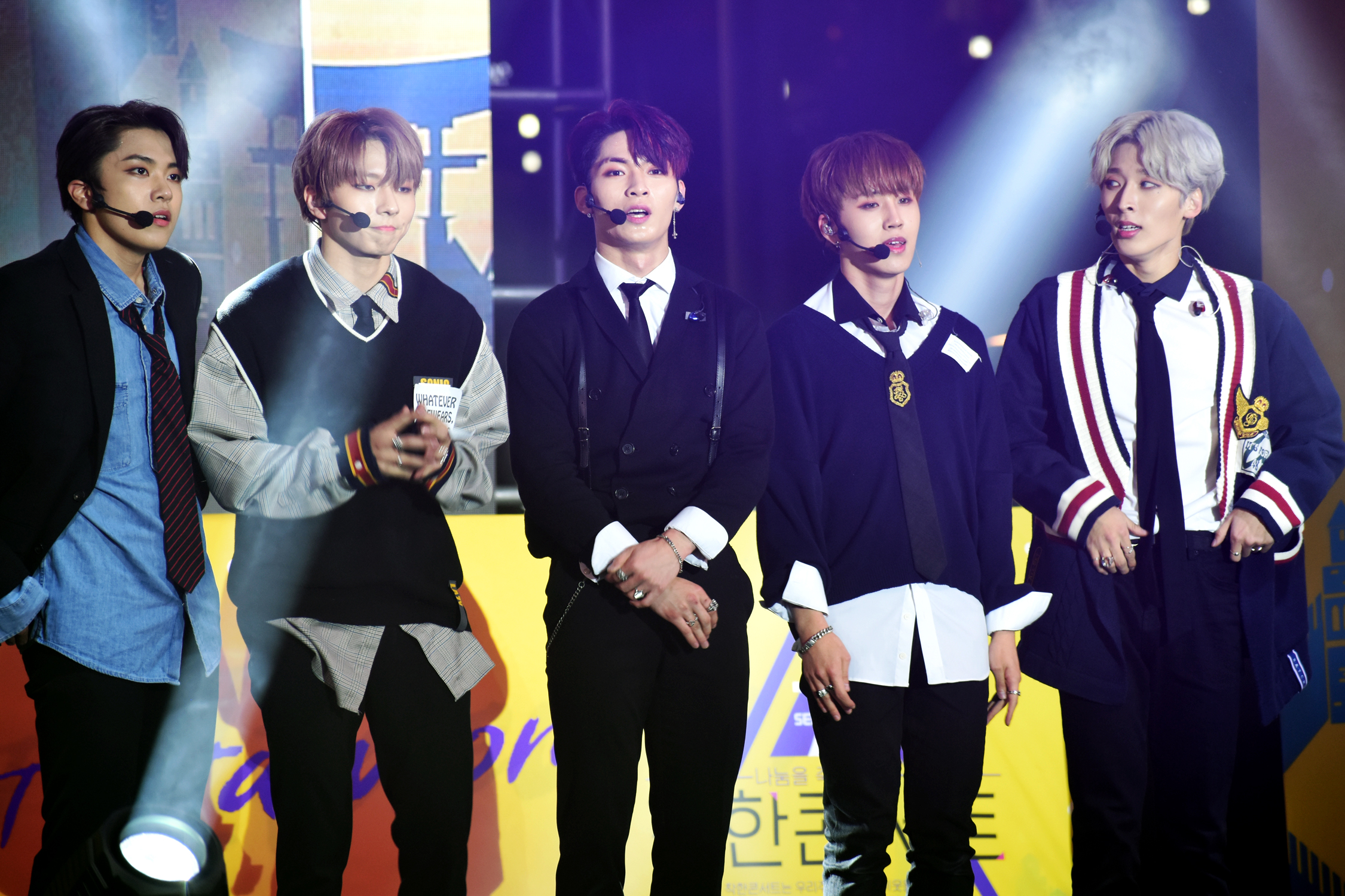 Seven O'Clock at the Itaewon Global Village Festival in Itaewon on October 13, 2018.